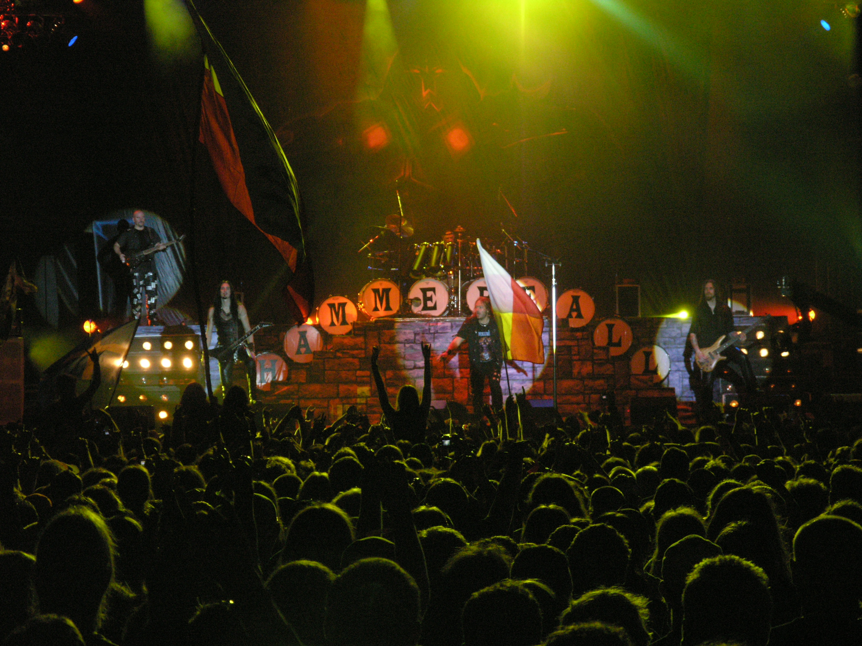 Music band Hammerfall during Masters of Rock 2007 festival